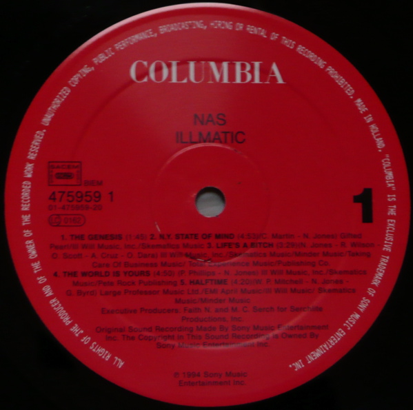 Side A of Nas's 12-inch album Illmatic.